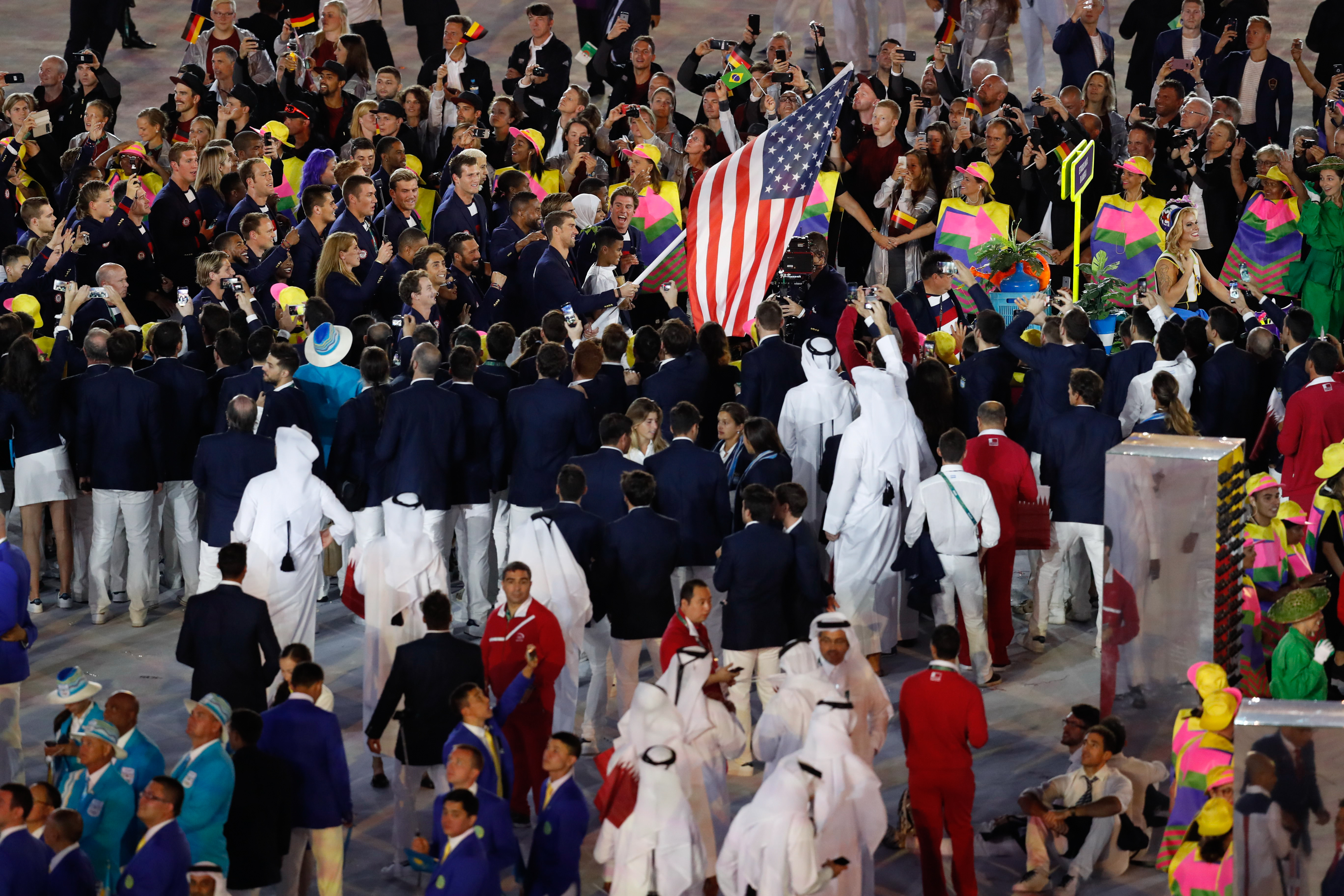 Rio de Janeiro - Cerimônia de abertura dos Jogos Olímpicos Rio 2016 no Estádio do Maracanã. (Fernando Frazão/Agência Brasil)